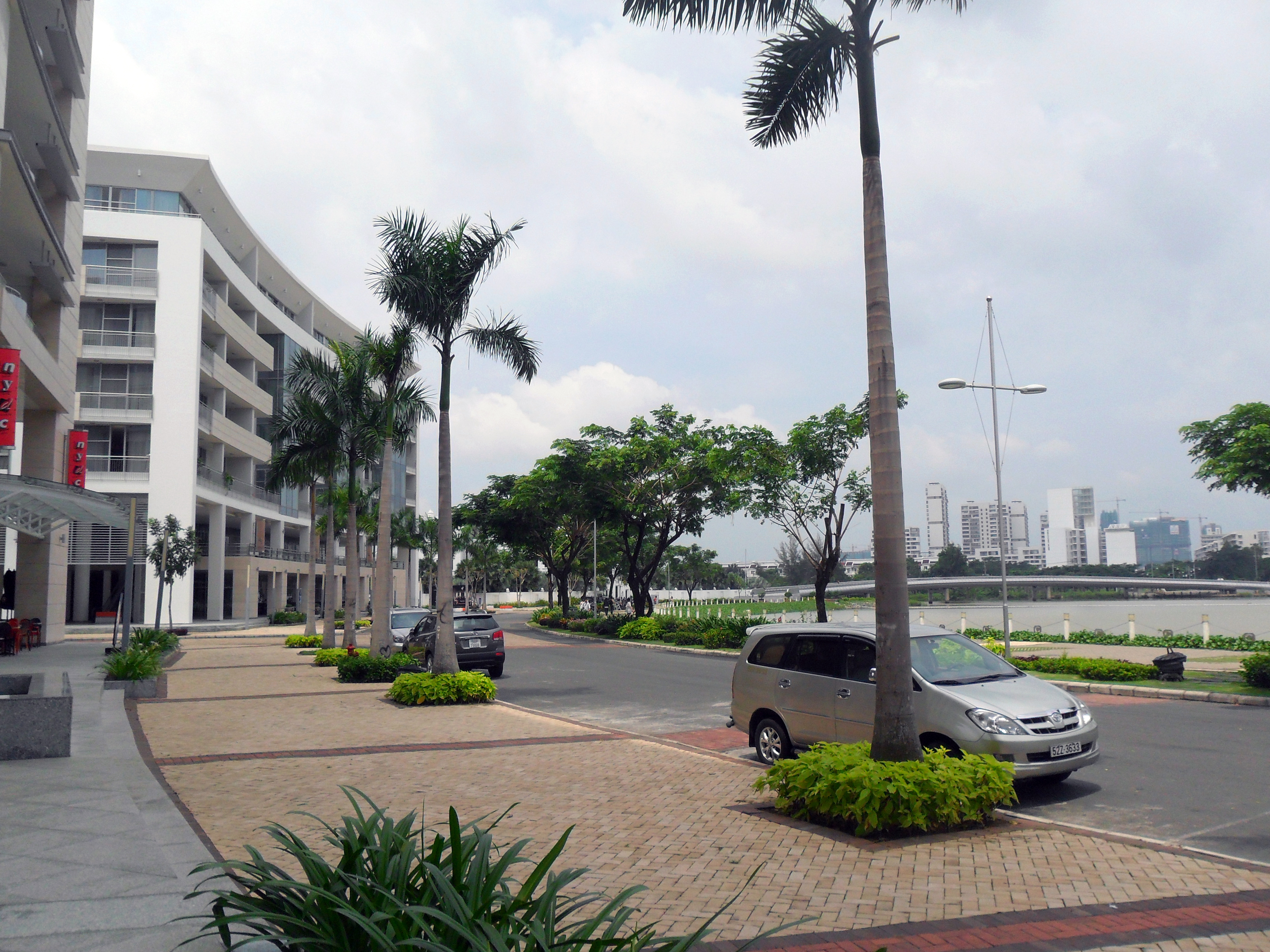 A view of Phu My Hung urban area in Ho Chi Minh City, Vietnam.